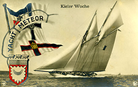 postcard of theMeteor IV (Max Oertz design, 1908) racing during Kiel Week